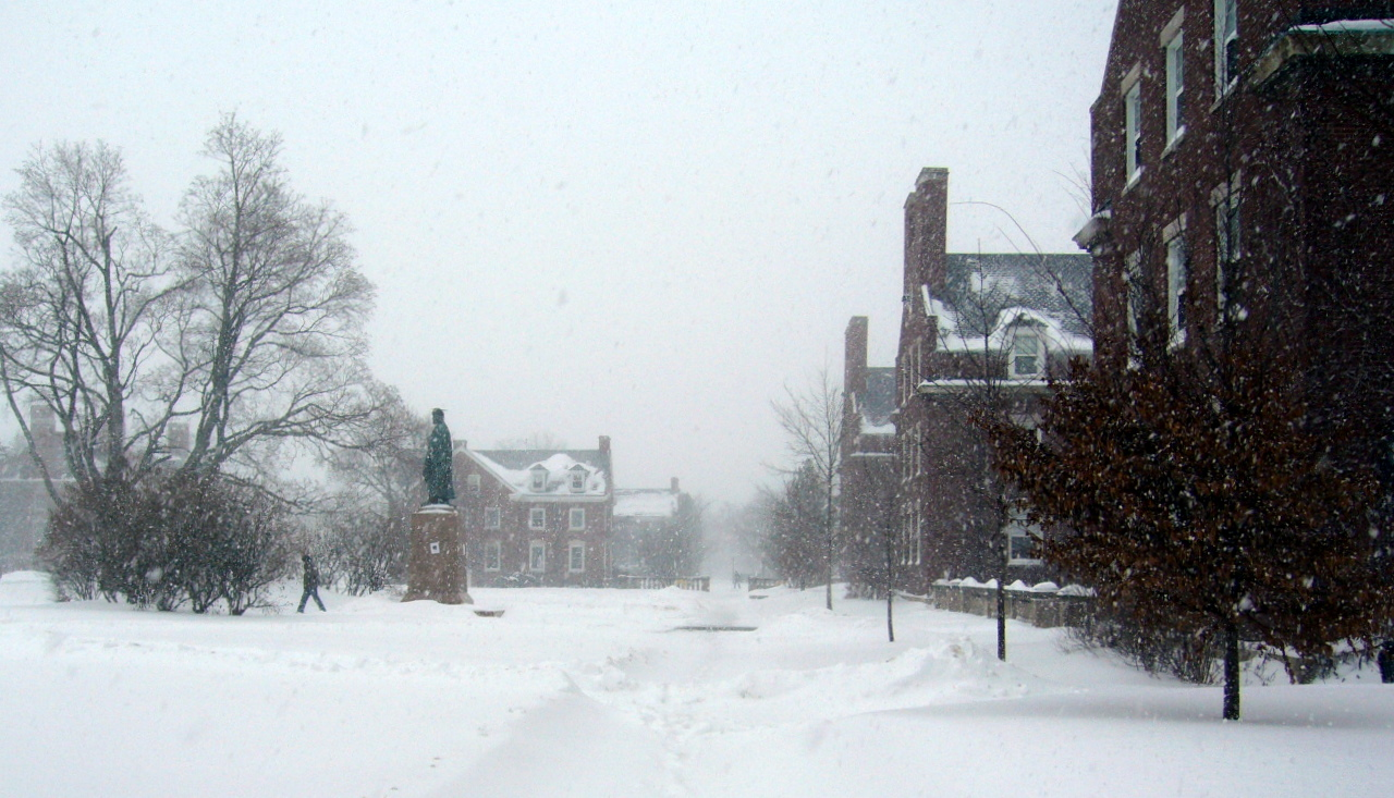 University of Rochester Academic Quad, February 2007 snowstorm